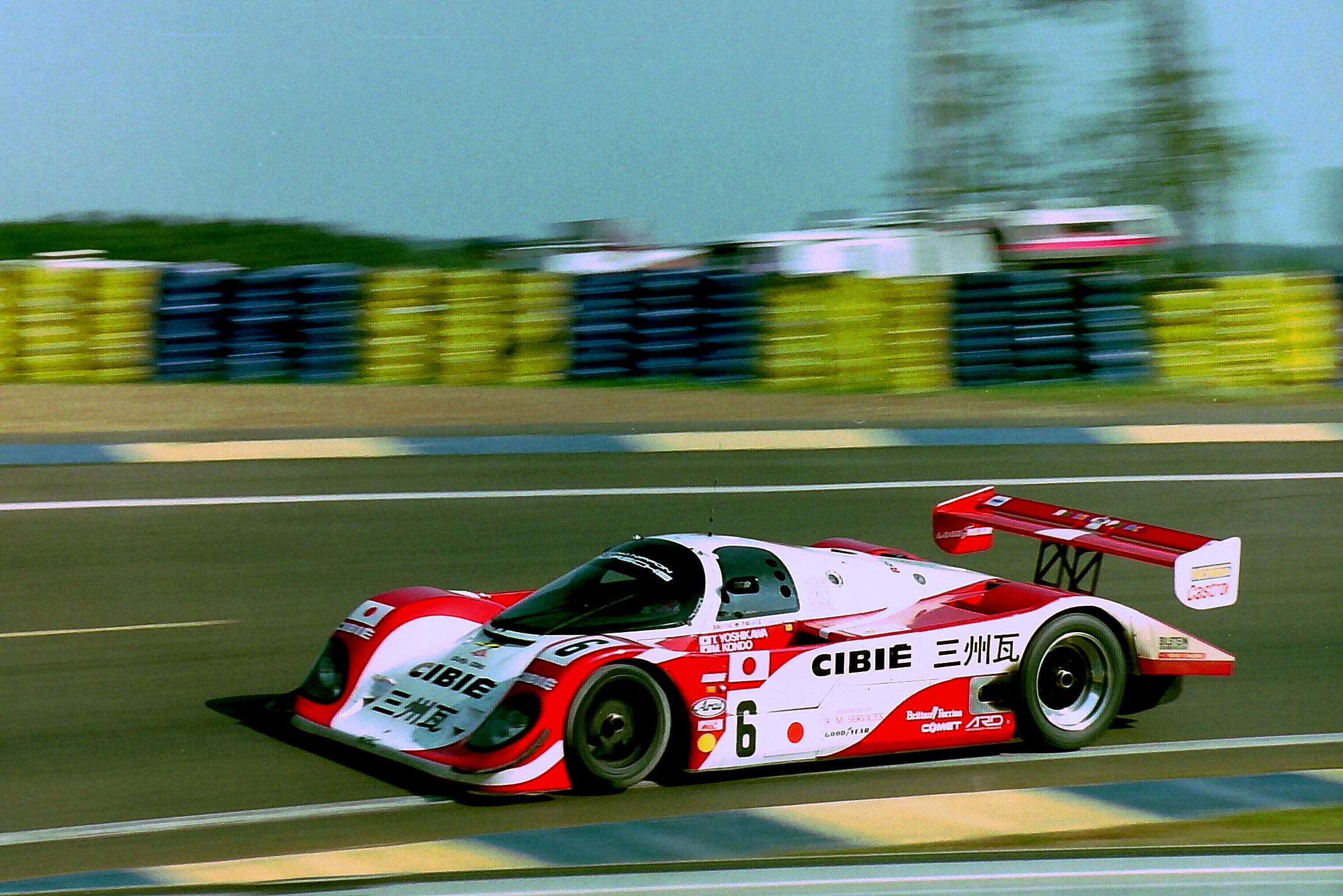 Porsche 962C - Jun Harada, Tomiko Yoshikawa & Masahiko Kondou enters the Esses at the 1994 Le Mans